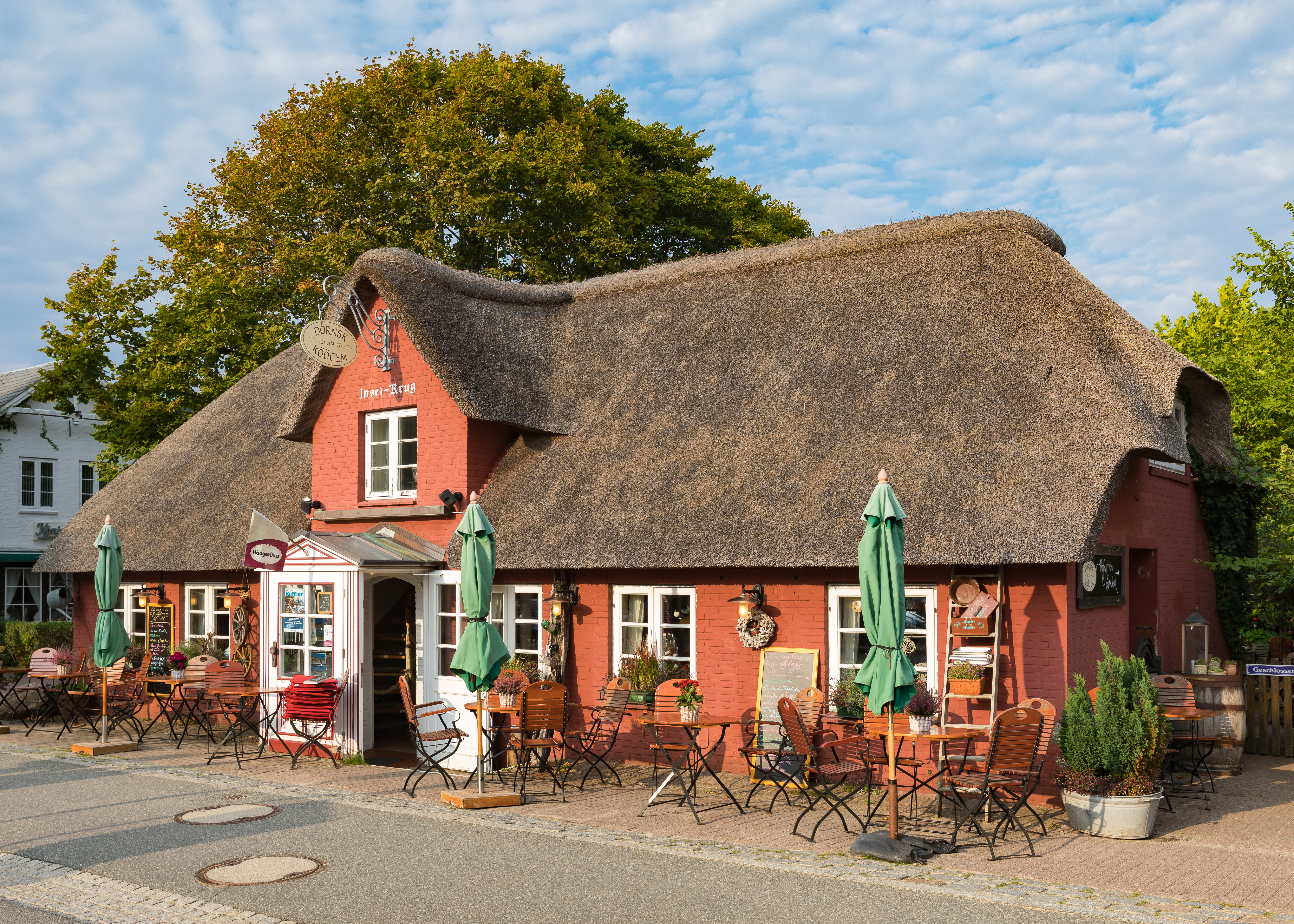 Historic thatched roof house Dörnsk an Köögem, Uasterstigh 19, Nebel, on the Northern Frisian island of Amrum, Germany